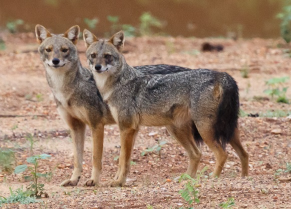 Sri Lankan jackals, Yala National Park